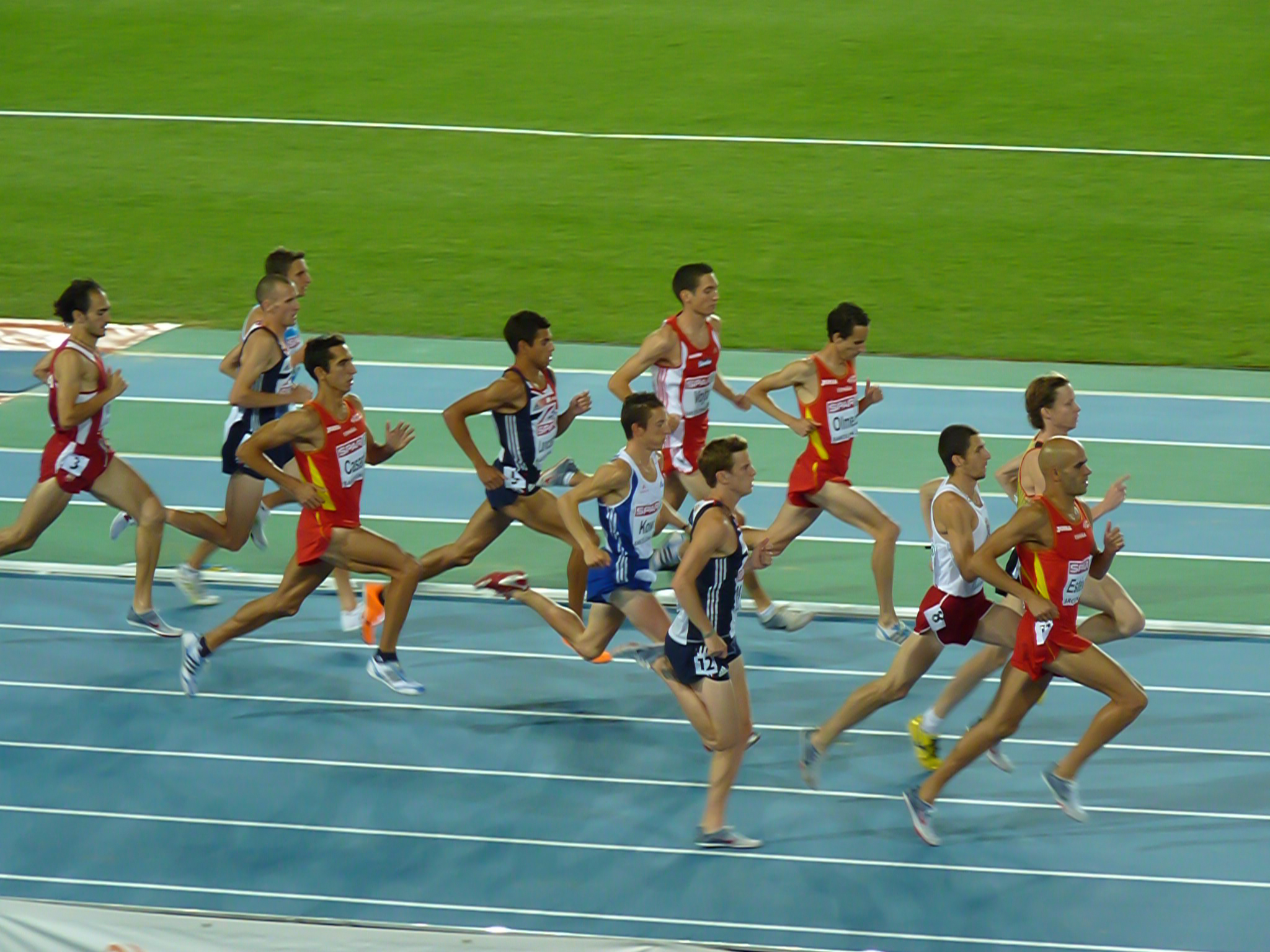 2010 European Championships in Athletics - during 1500 m final. Goran Nava, Andy Baddeley, Christian Obrist, Arturo Casado, Thomas Lancashire, Yoann Kowal, Andreas Vojta, Colin McCourt, Manuel Olmedo, Mateusz Demczyszak, Carsten Schlangen, Reyes Estévez.